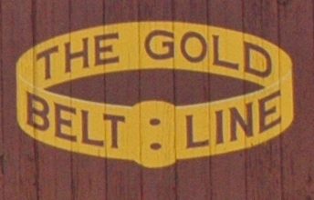 Logo of the Florence & Cripple Creek Railroad